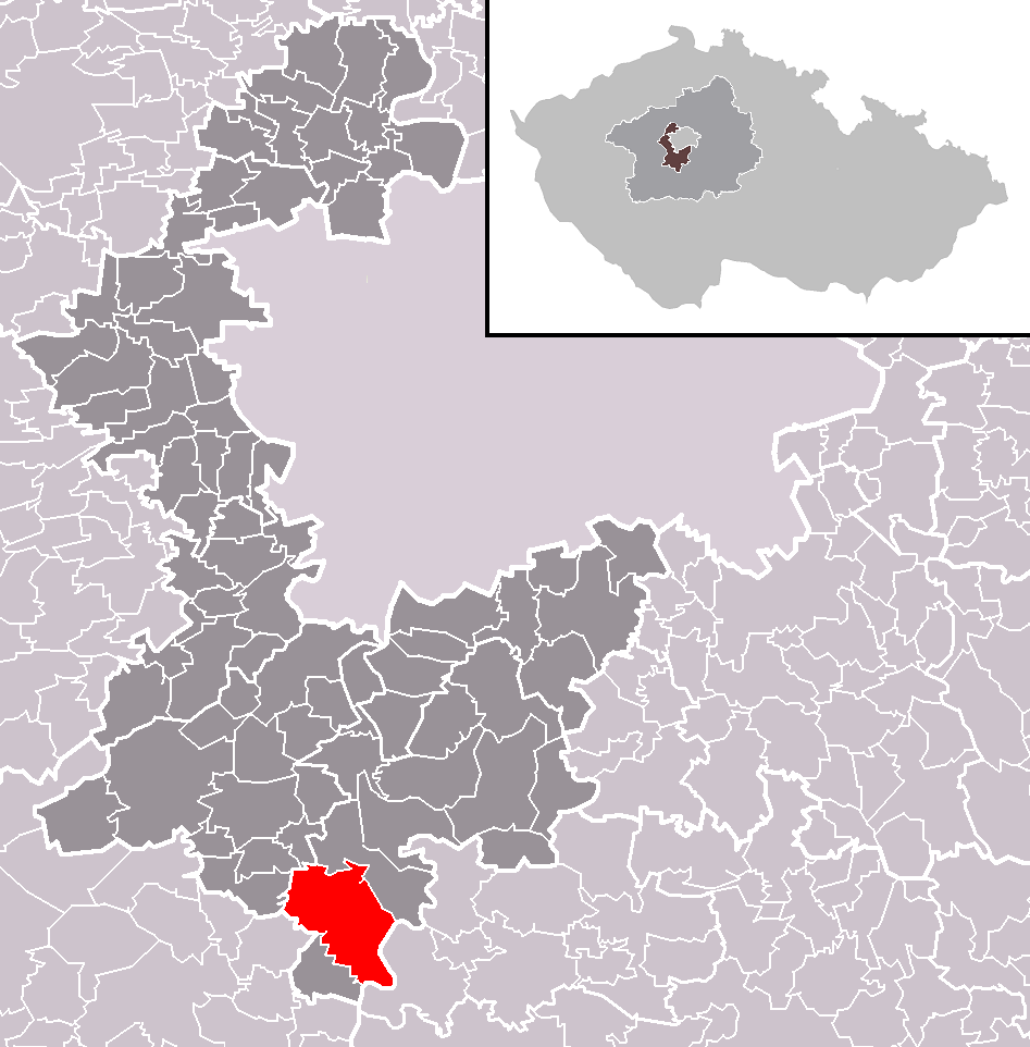 Location of Slapy municipality within Prague-West District and administrative area of Černošice as a Municipality with Extended Competence.